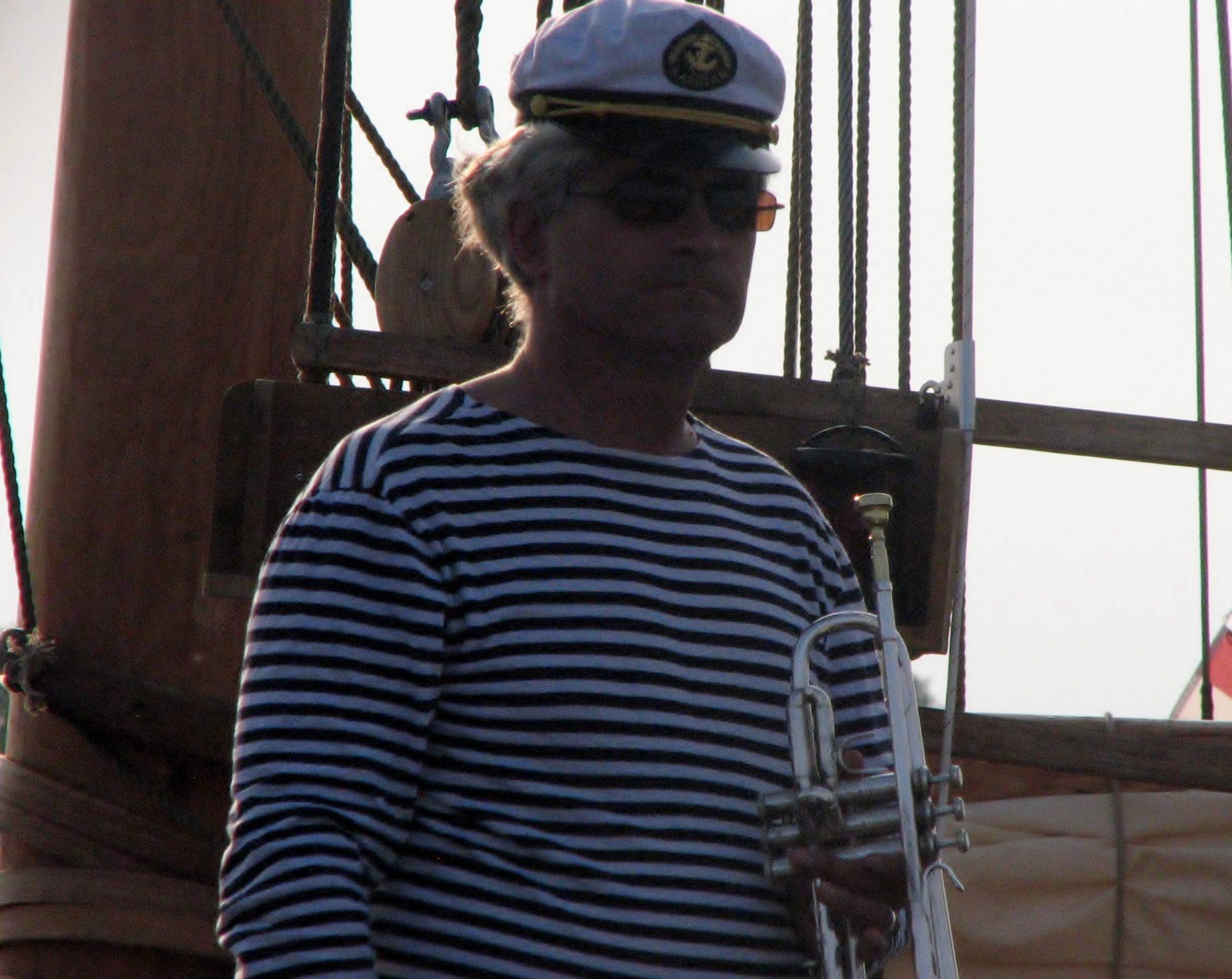 Priit Aimla performing in Kuressaare Maritime Days